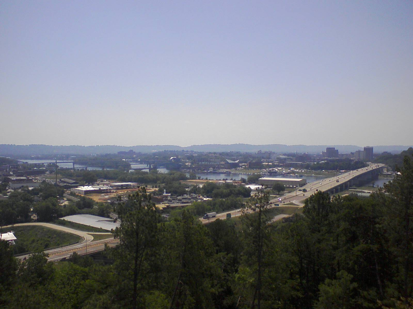 A view of Chattanooga from the north side of the Tennessee River. The Tennessee Aquarium is the two buildings in the middle of the opposite side of the river, with the pointed roofs. The sun is gleaming off the saltwater aquarium, on the left. The four bridges of Chattanooga are pictured. From right to left: The Olgiati Bridge, Market Street Bridge, Walnut Street Bridge, and Veteran's Bridge. Missionary Ridge is in the far background.